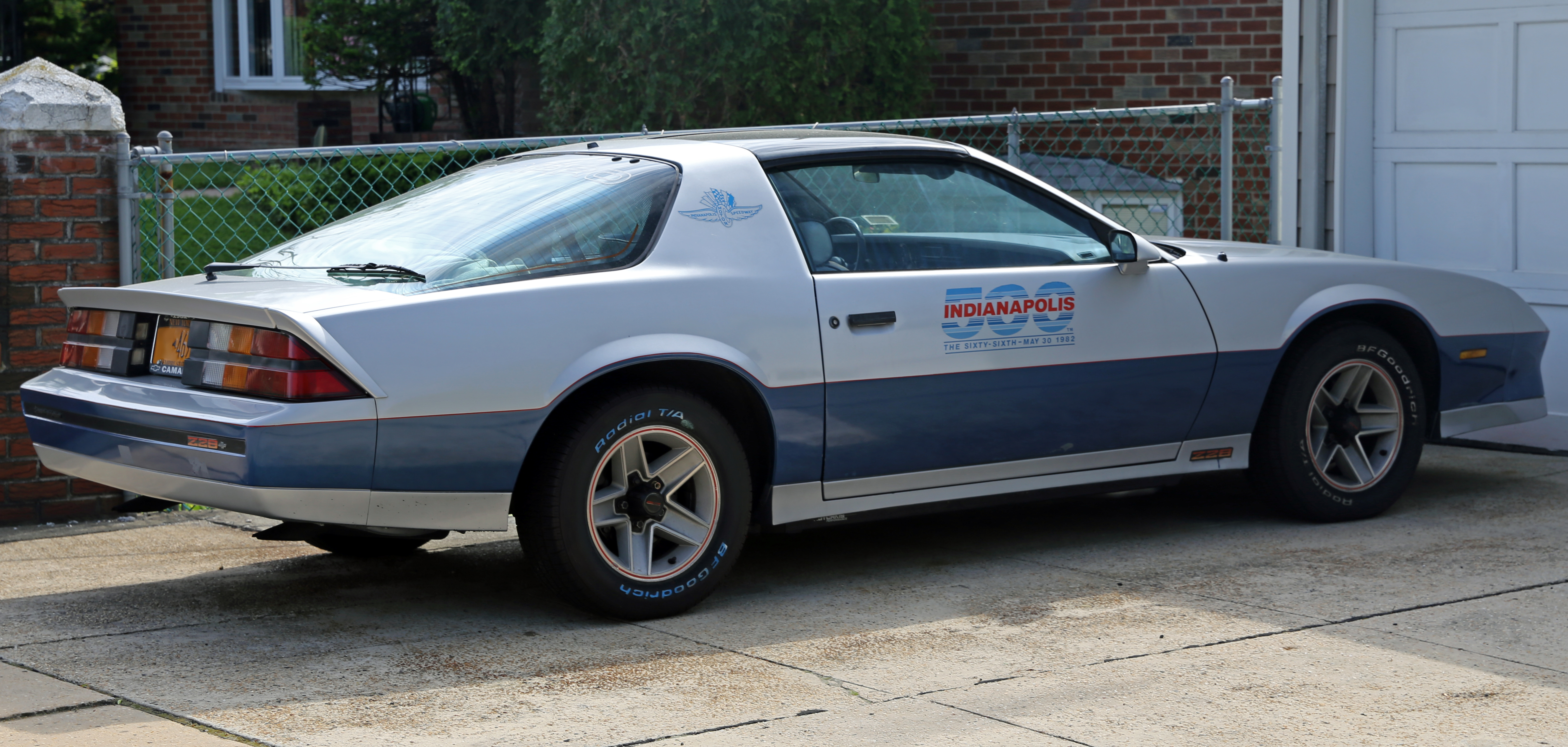 Rear right side view of a 1982 Chevrolet Camaro Indy 500 Pace Car special edition, one of 6,360 built. 165 hp 305ci (5 litre) V8 engine, built at the Van Nuys, CA, plant.